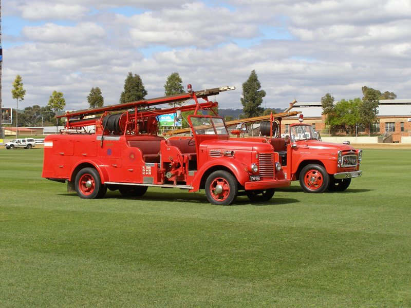 taken by manny 09:17, 26 August 2006 (UTC)